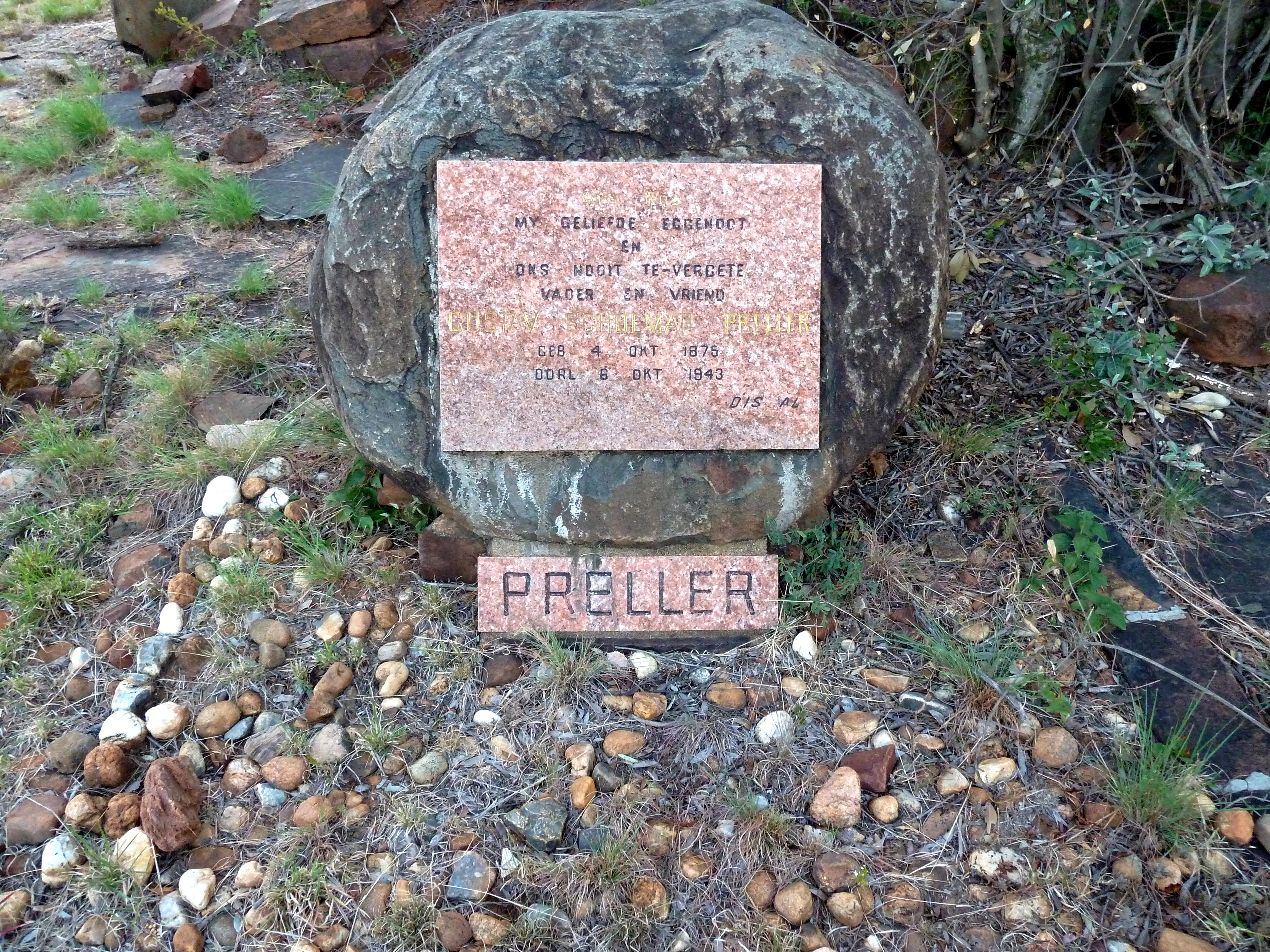 Gravestone of writer Gustav Preller in the Preller family cemetery at Pelindaba near Pretoria. A marble tablet on the grave depicts a coat of arms, a pen quill and open book, and bears the text "DIE AFRIKAANSE SKRYWERSKRING" HIER RUS MY GELIEFDE EGGENOOT EN ONS NOOIT TE-VERGETE VADER EN VRIEND GUSTAV SCHOEMAN PRELLER GEB 4 OKT 1875 OORL 6 OKT 1943 DIS AL